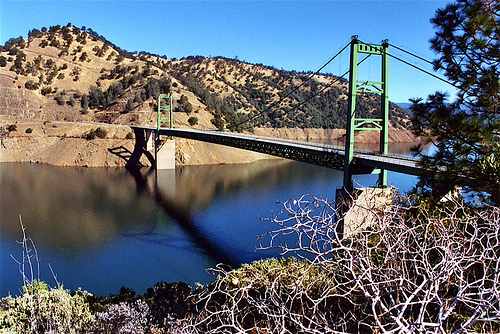 The Bidwell Bar Bridge near the Feather River Canyon and Oroville, northern California. Completed in 1965 — it spans Lake Oroville, east of Oroville Dam.